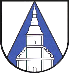 Coat of Arms of Silberhausen